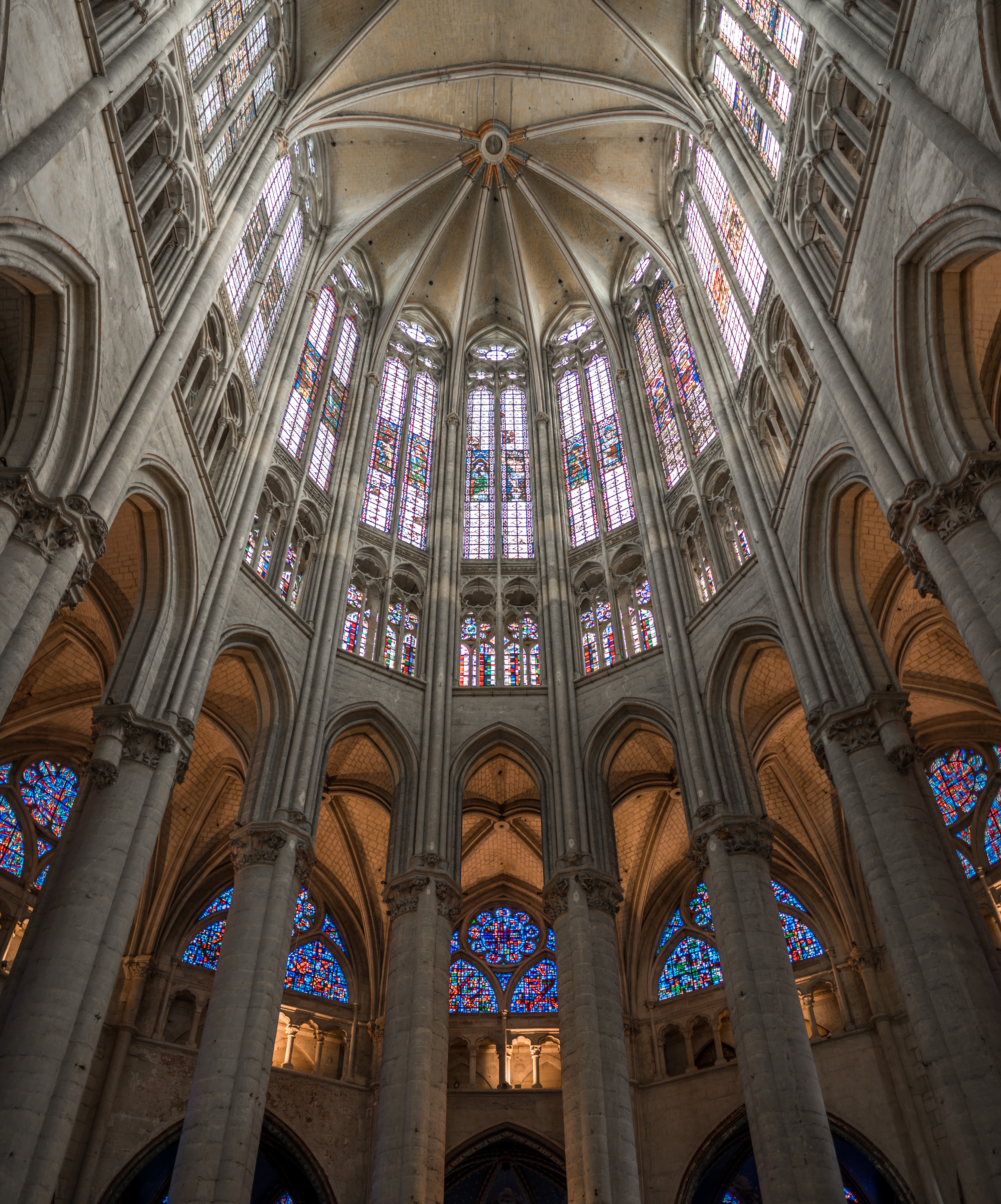 Beauvais cathedral interior picture